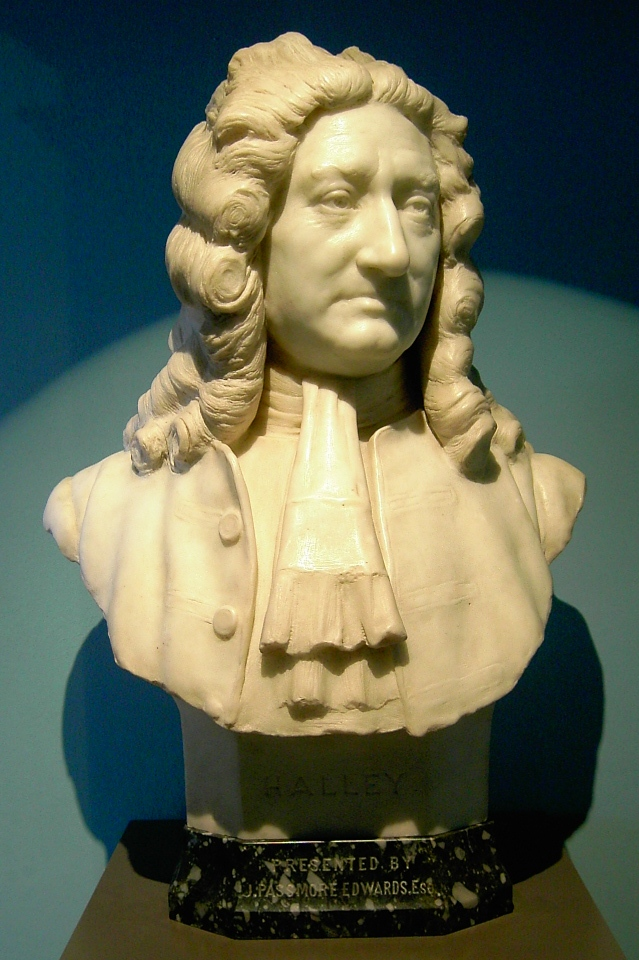 Bust of Edmond Halley in the Museum of the Royal Greenwich Observatory, London